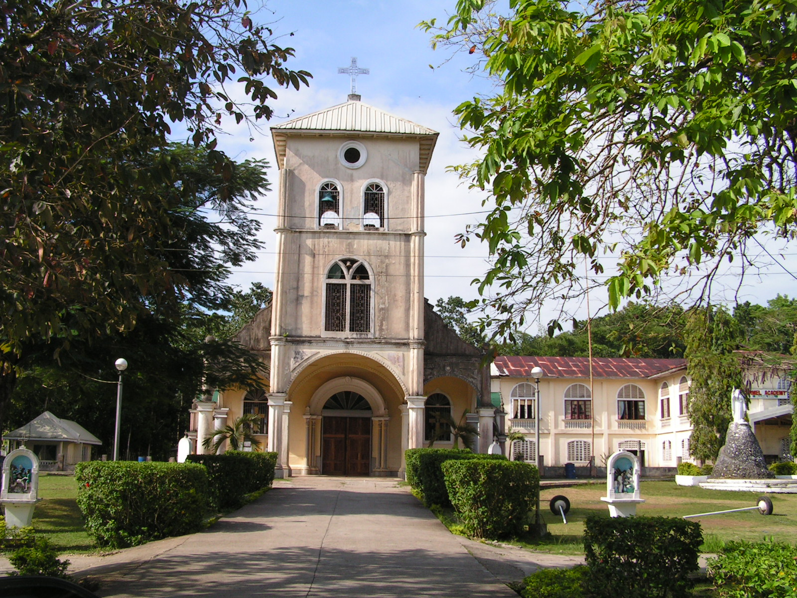 self-taken